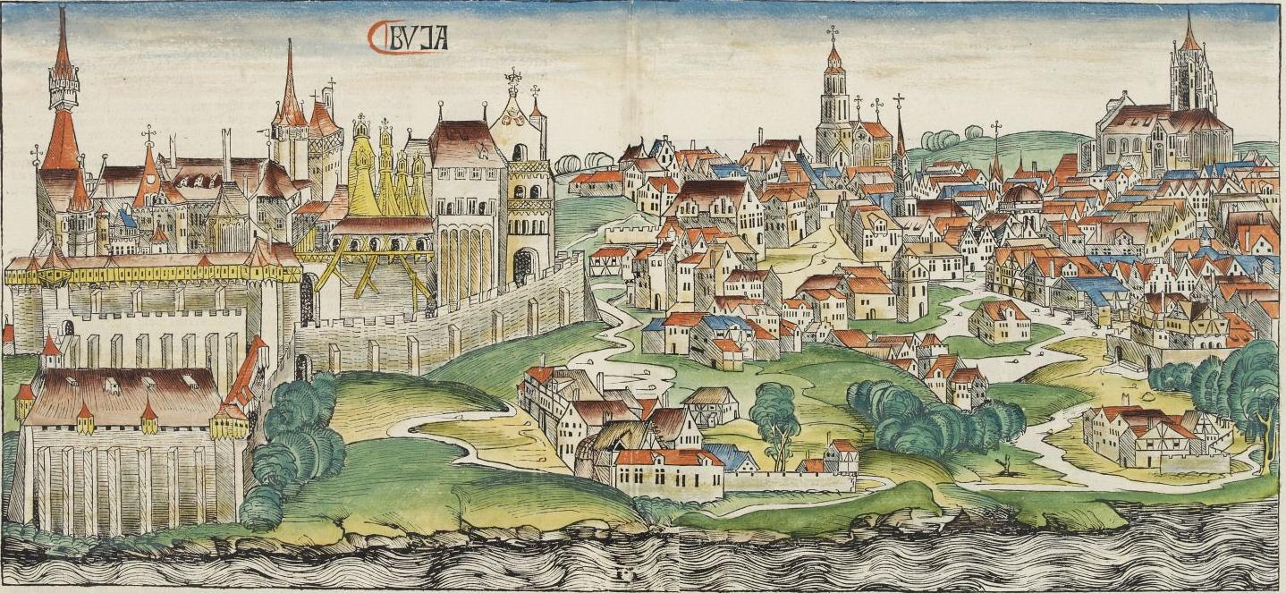 The Hungarian town of Buda (today one half of Budapest) in the Nuremberg Chronicle